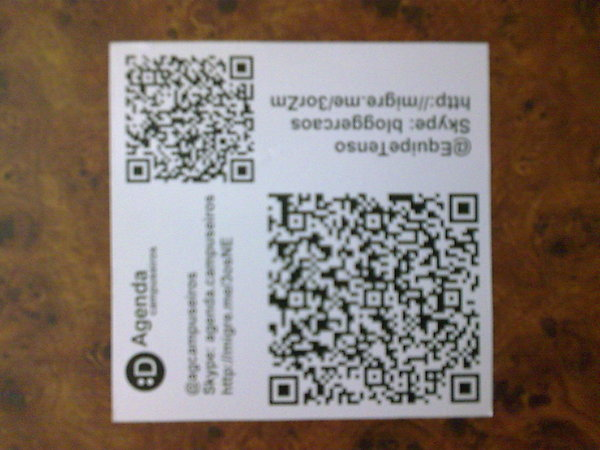 QR code